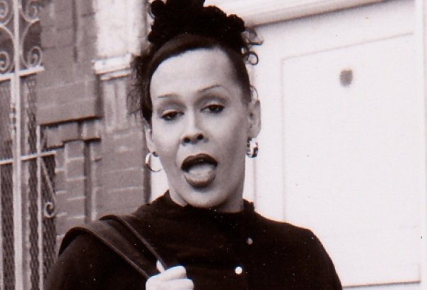 Adela in 1996 as an Outreach Coordinator for Proyecto ContraSIDA por Vida